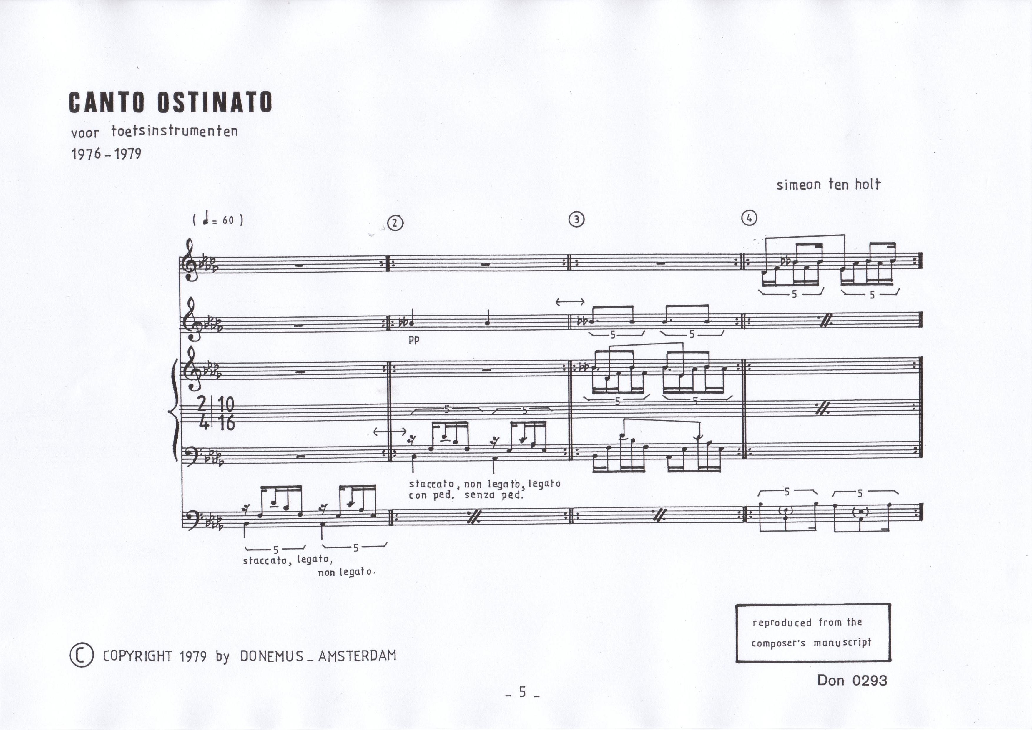 The first four bars of Canto Ostinato, as published by Donemus in 1979 and released to download at the official site of the composer of the composition.